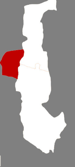 Location of Wuda districtr in Wuhai City, China